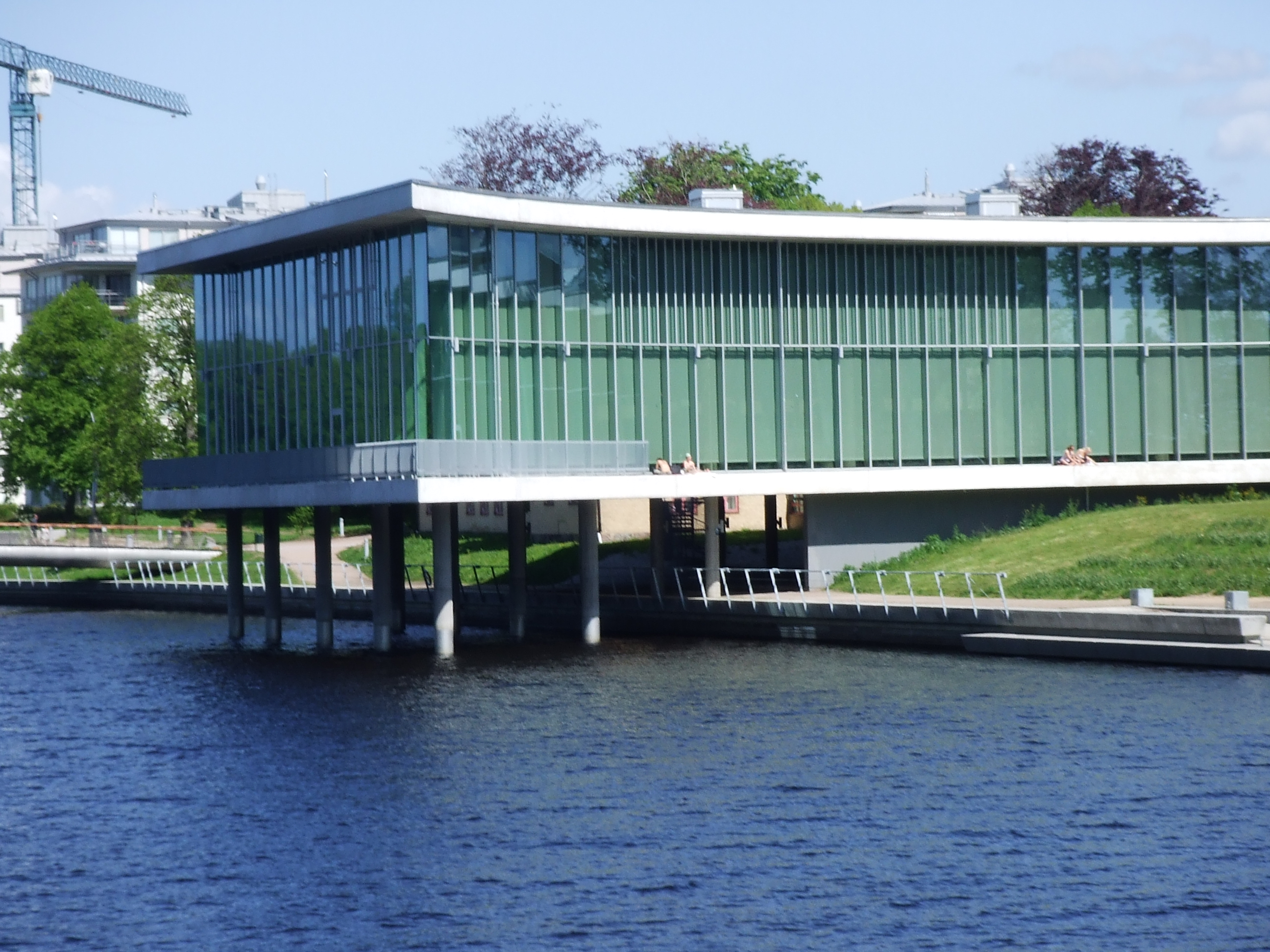 The library in Halmstad, Sweden.